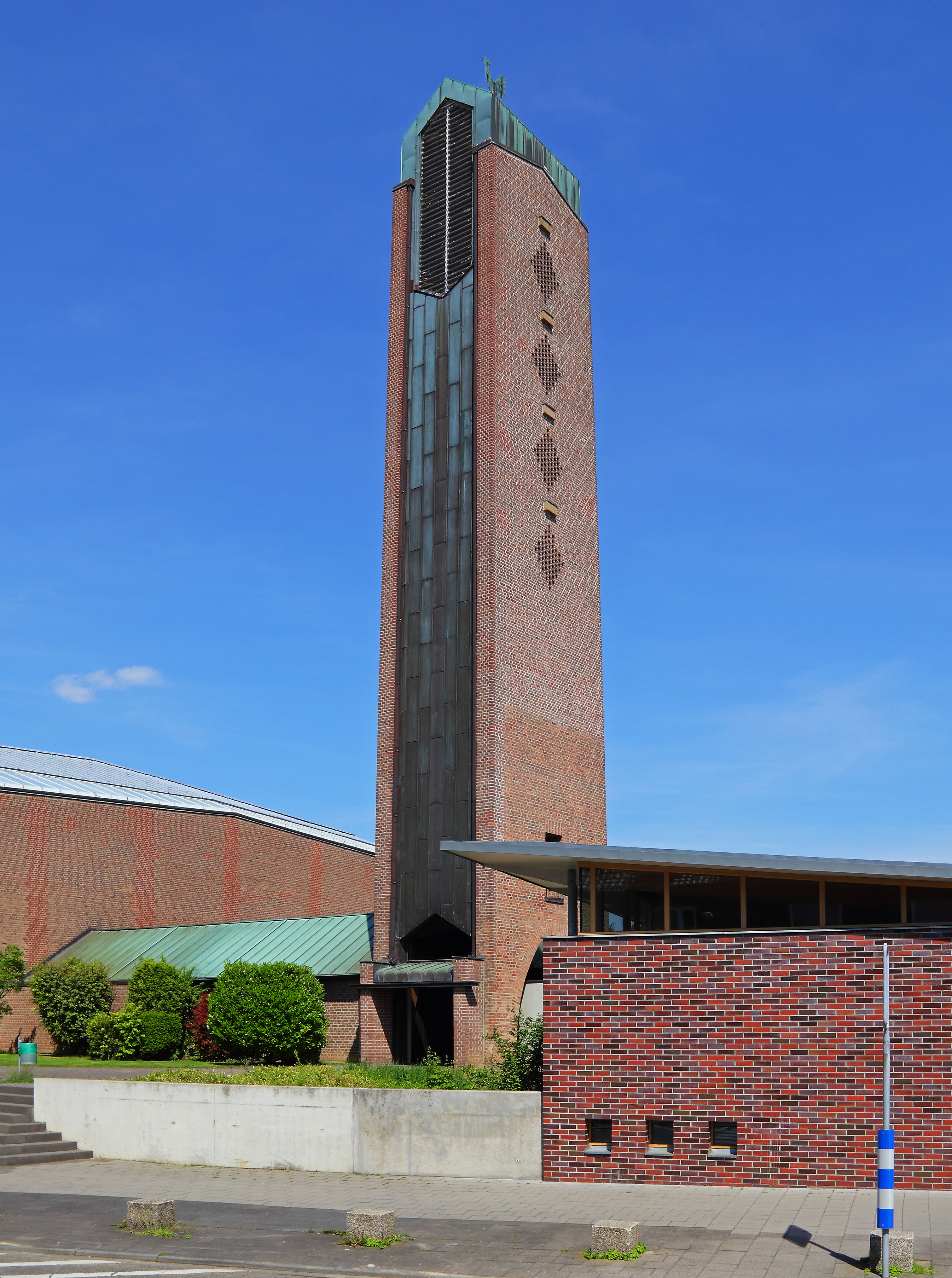 Kerpen-Sindorf. Church St. Maria Königin.